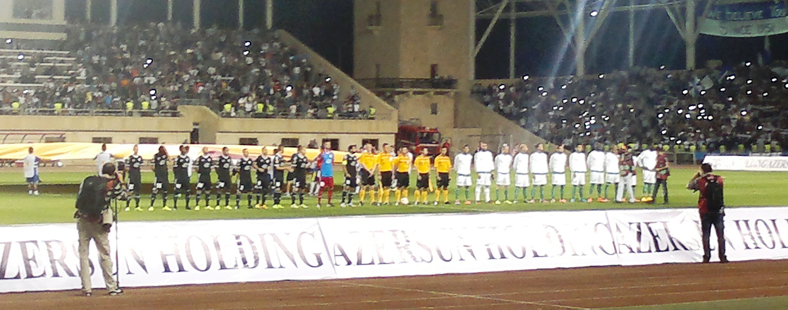 Beginning of the match between Qarabagh FC and Saint Etien